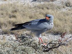 Southern Chanting Goshawk in Namibia